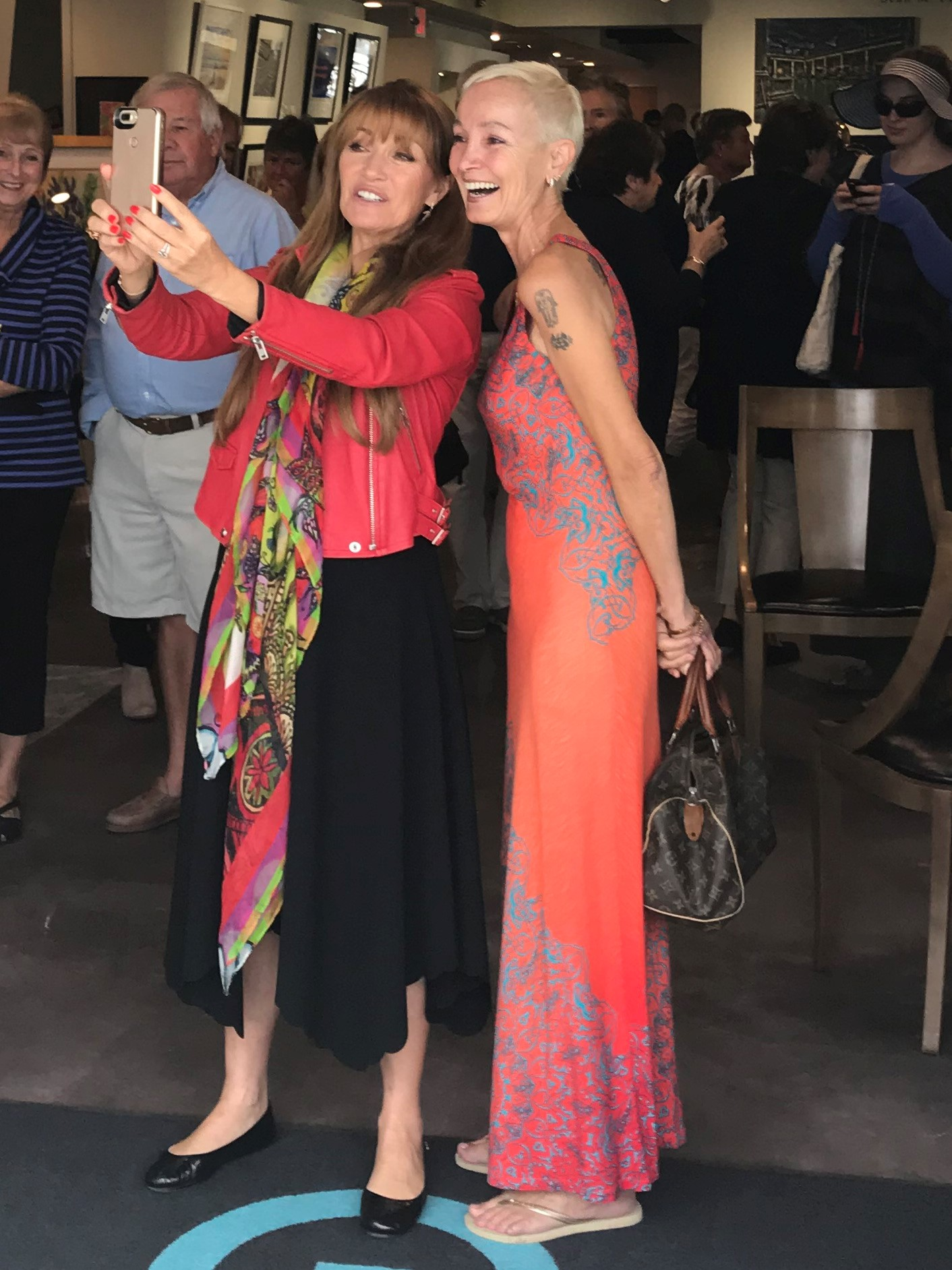 "Dr. Michaela Quinn" Jane Seymour meets actress and voice talent Marietta Meade in Sarasota, Florida